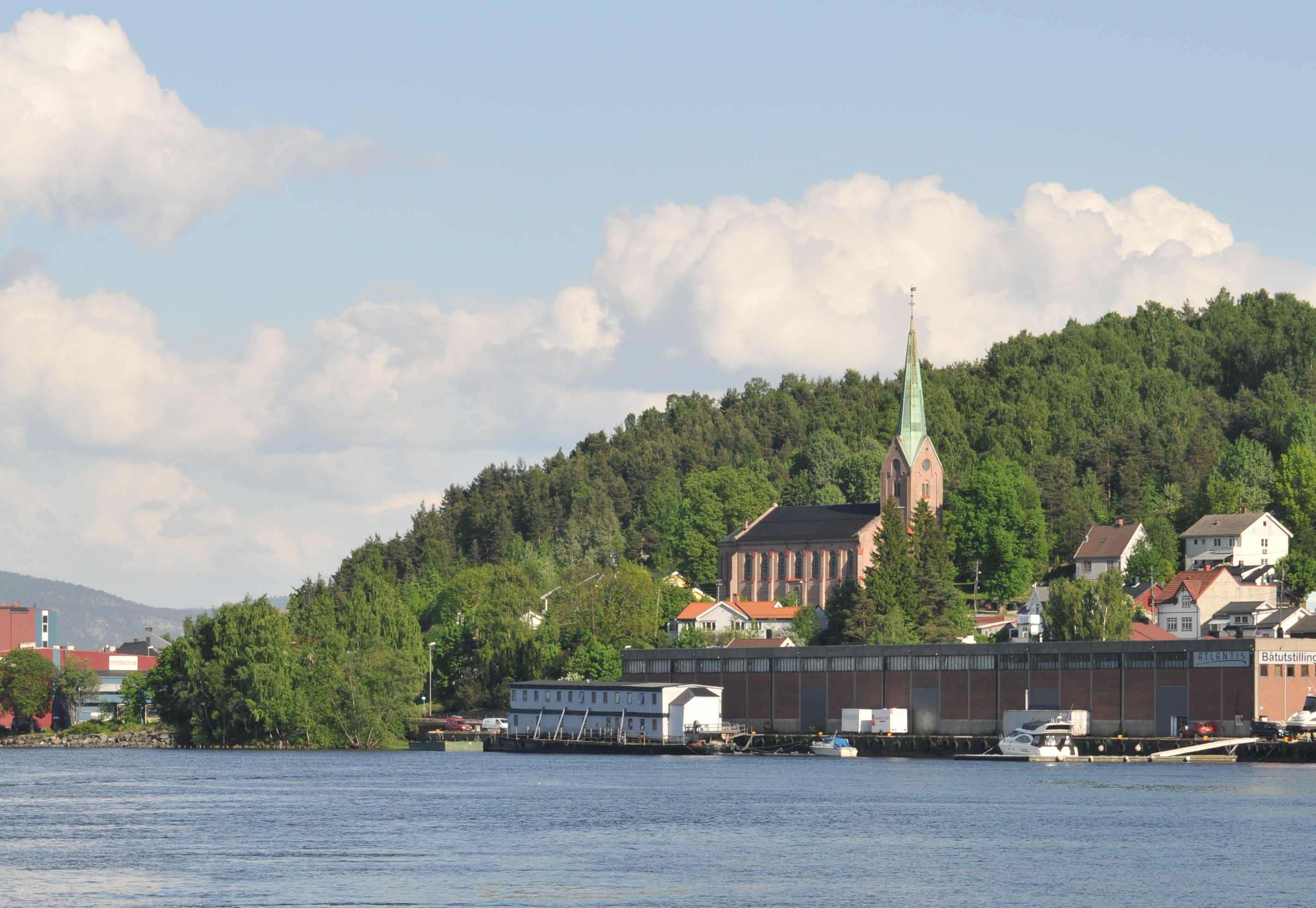 Tangen kirke in Drammen seen from Drammen tollsted